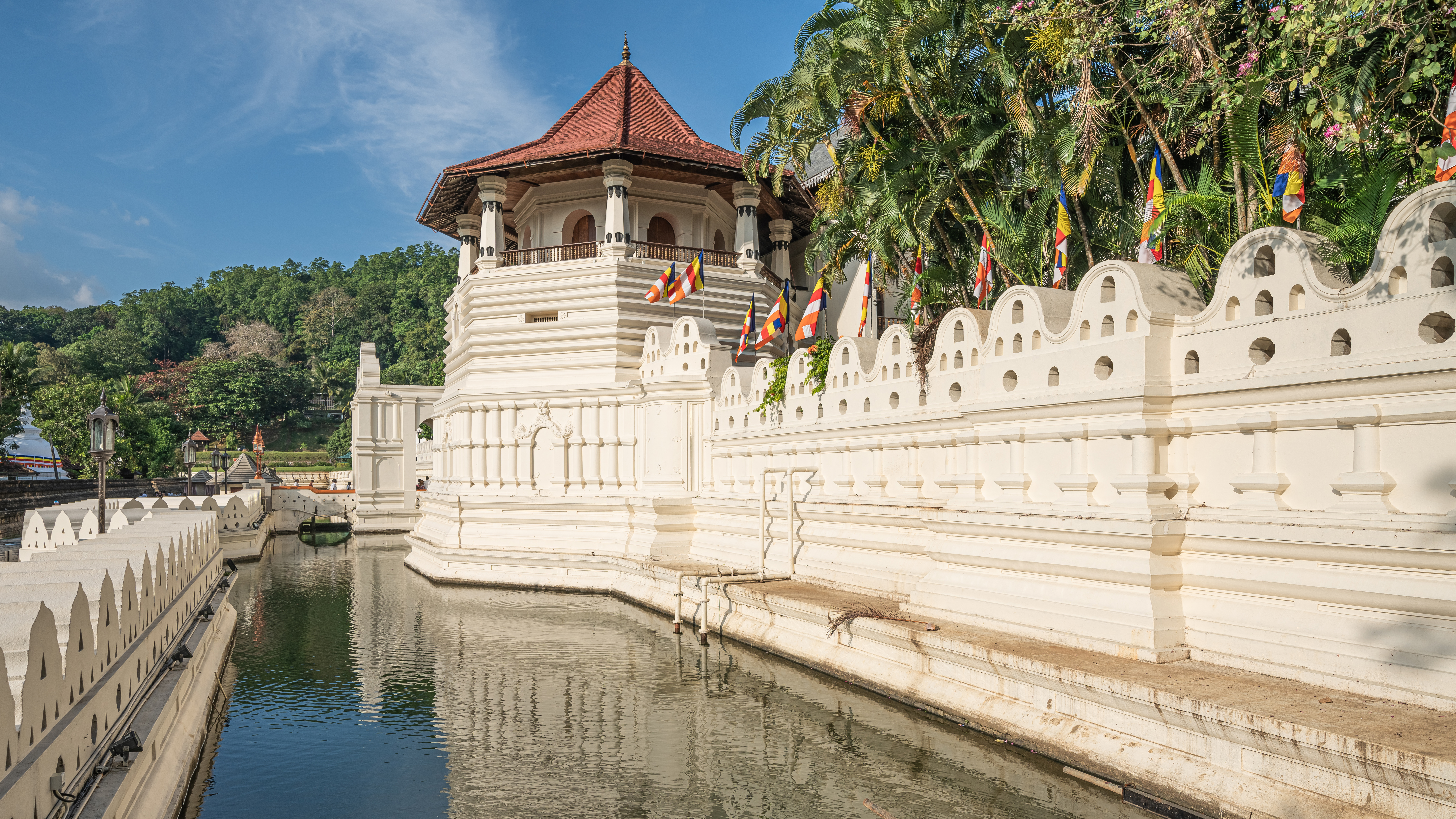 Sacred Tooth Temple in Kandy, Sri Lanka